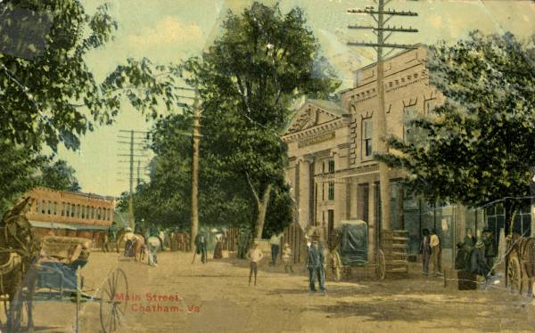 Photographic view looking north on Main Street, Chatham, Pittsylvania County, Virginia, in 1909. Chatham Savings Bank is on the corner, and the Post Office and drug store are on the right.